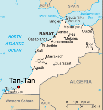 Map of the archaeological site of Tan-Tan, where was found the so-called Venus of Tan-Tan